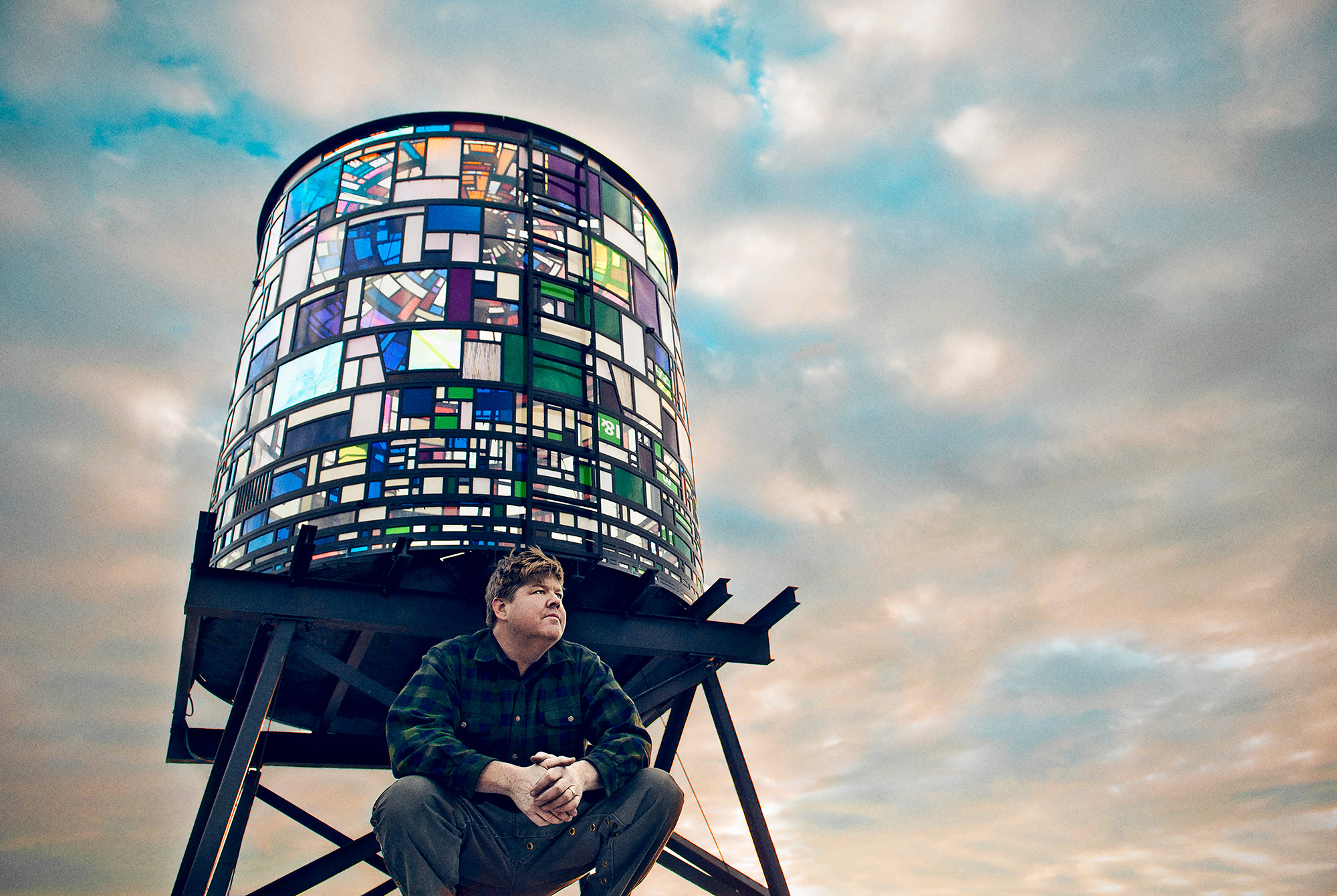 Watertower 2 Brooklyn Bridge Park